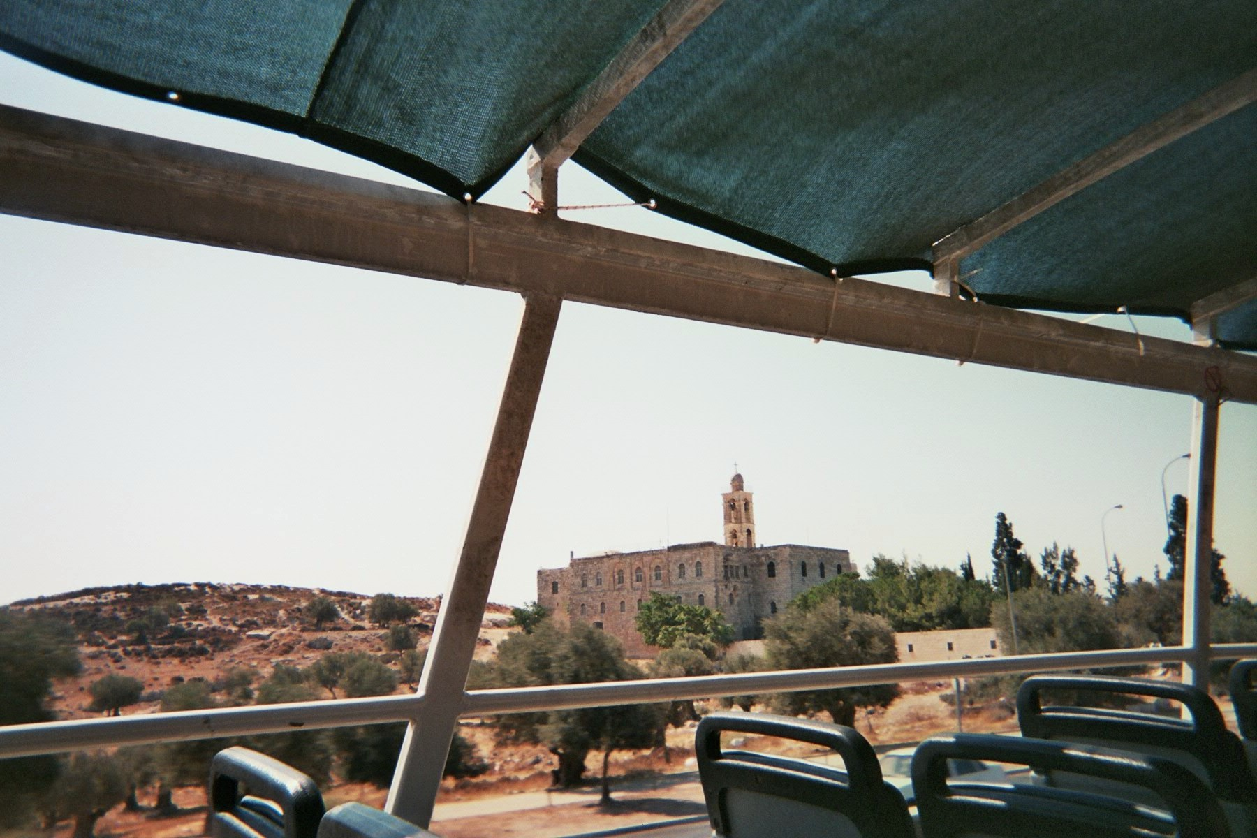 Mar Elias Monastery near Jerusalem as seen from bus 99